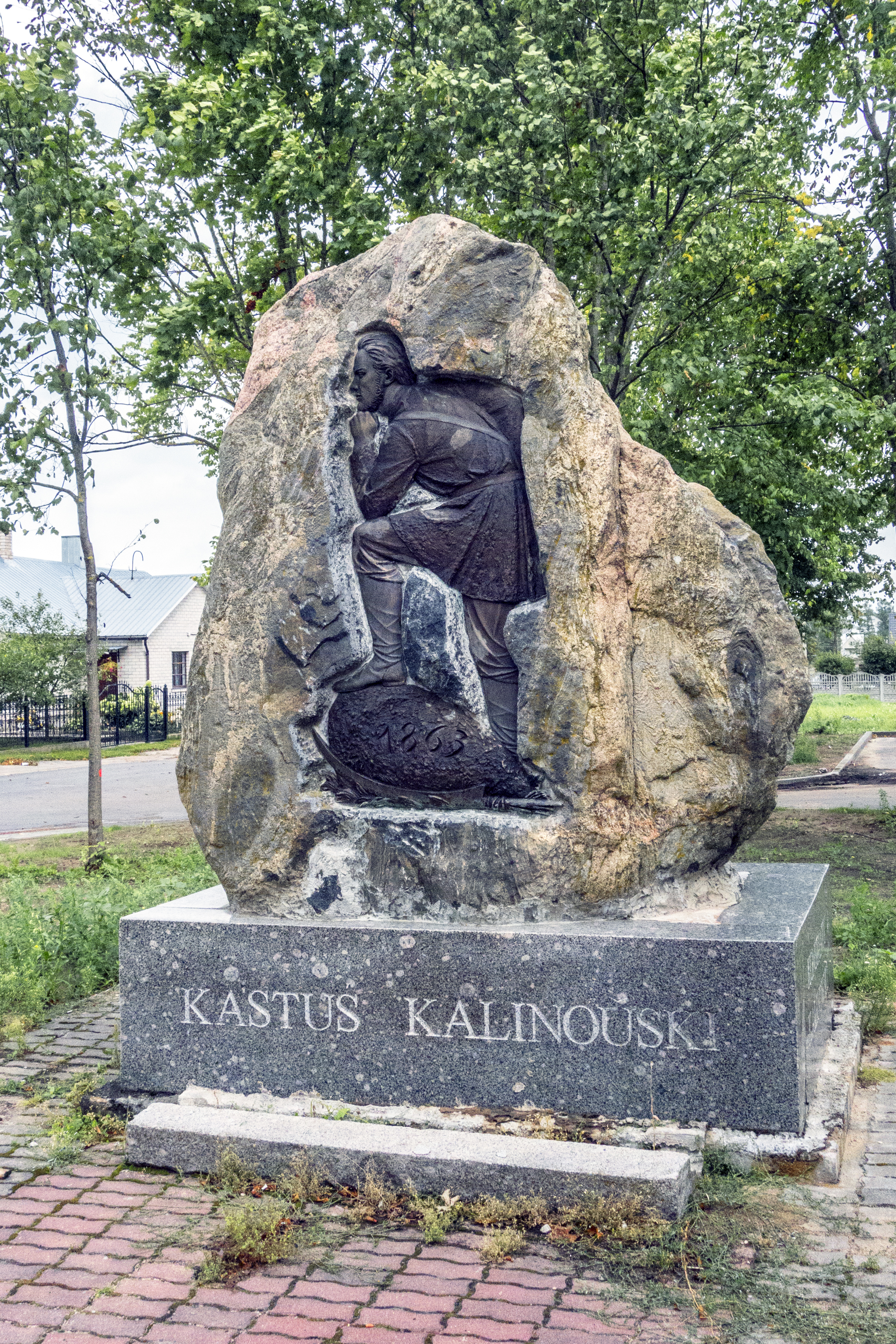 Monument in honor of Kastus Kalinowski in Šalčininkai